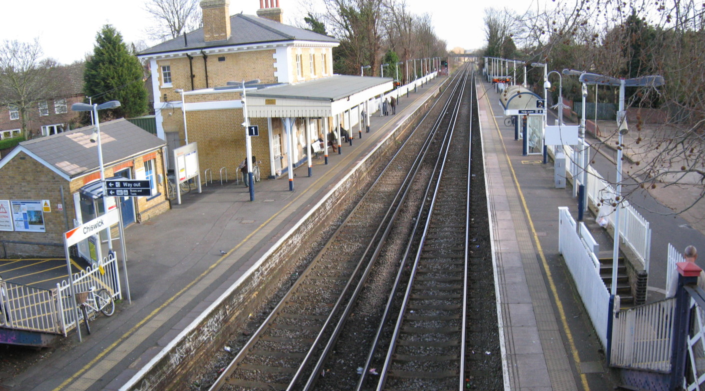 Chiswick station from the overbridge, looking east towards London.